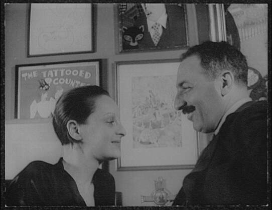 Title: Portrait of Alfred Knopf and Blanche Knopf Abstract/medium: 1 photographic print : gelatin silver.